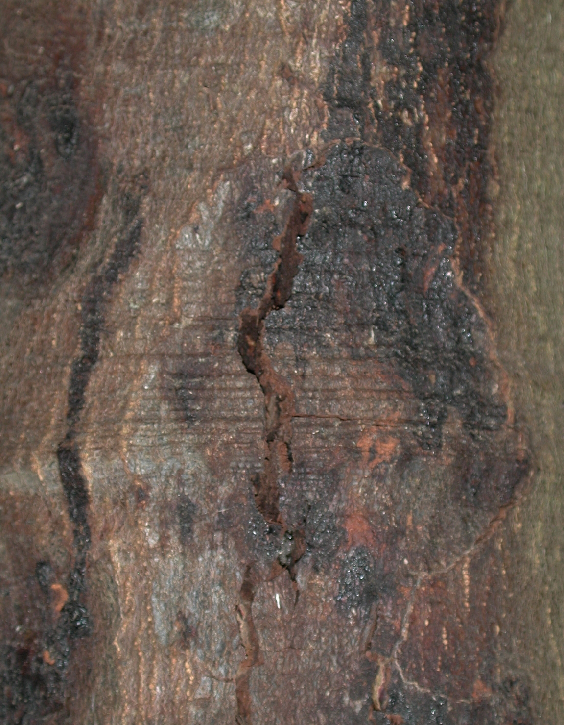 Notholithocarpus densiflorus bark killed by Phytophthora ramorum